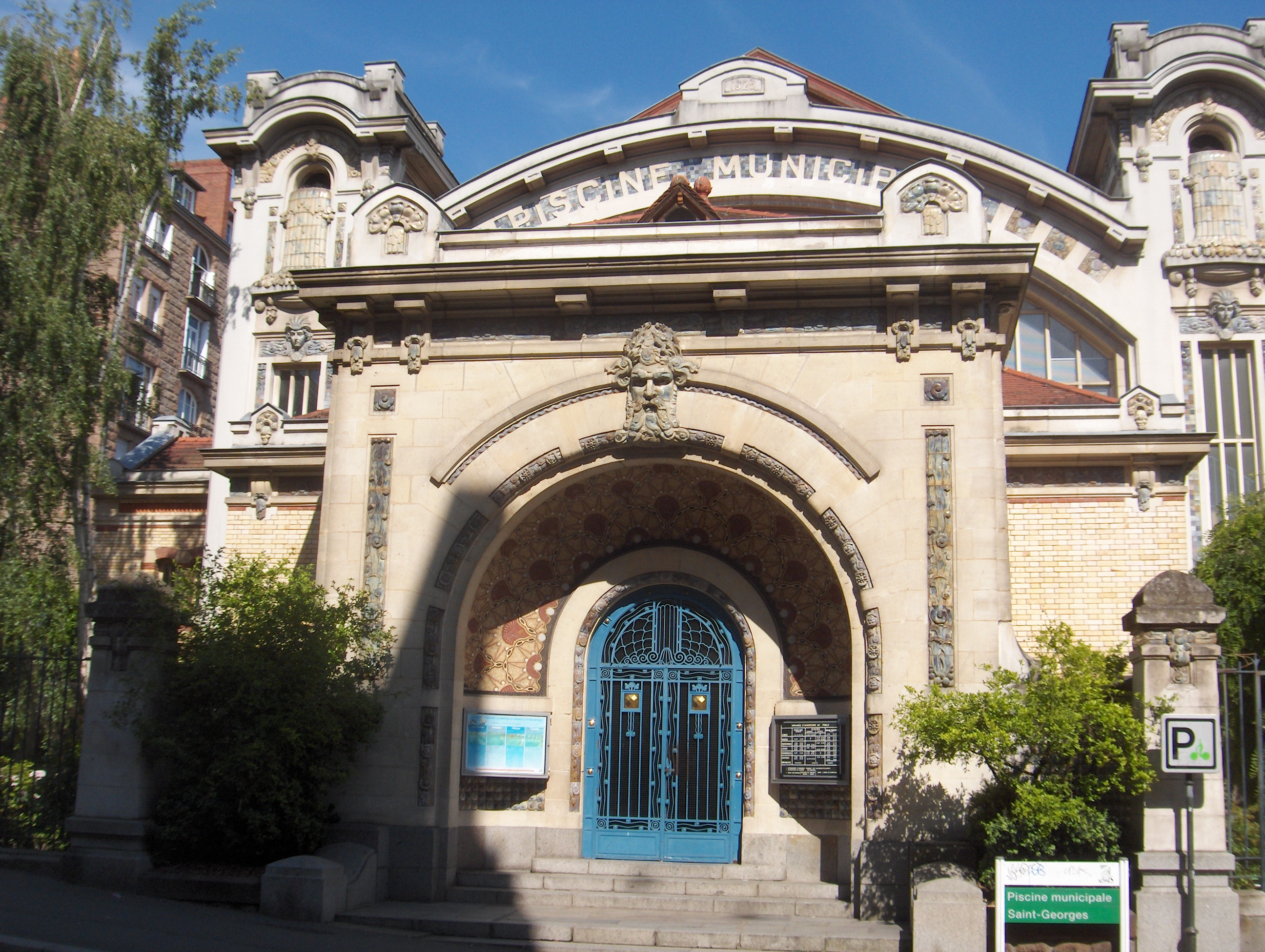 The entrance of one of the municipal swimming pool in Rennes: the Piscine Saint-Georges, France.